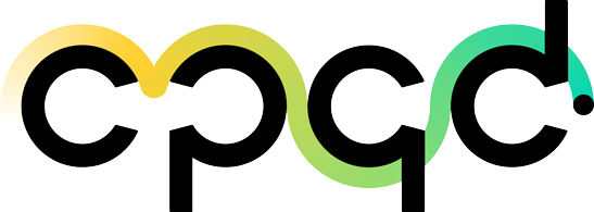 This is the new logo of CPQD